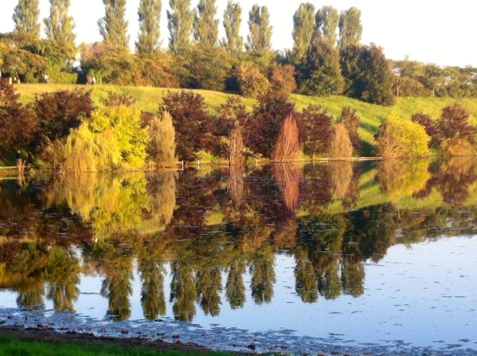 Park Increa with lake, south-est side